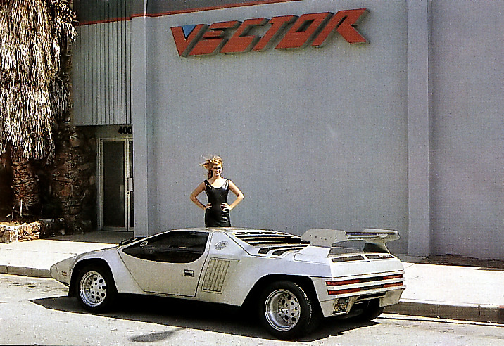 Shot in 1984 for Mr. Wiegert, the Vector in silver at the Vector building in Wilmington